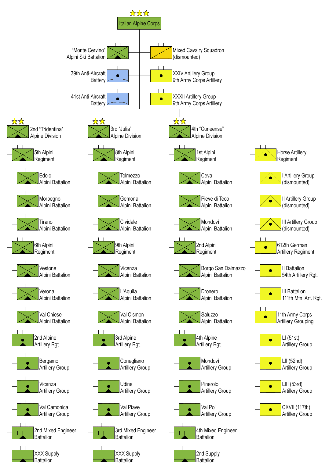 Italian Alpine Corps WWII